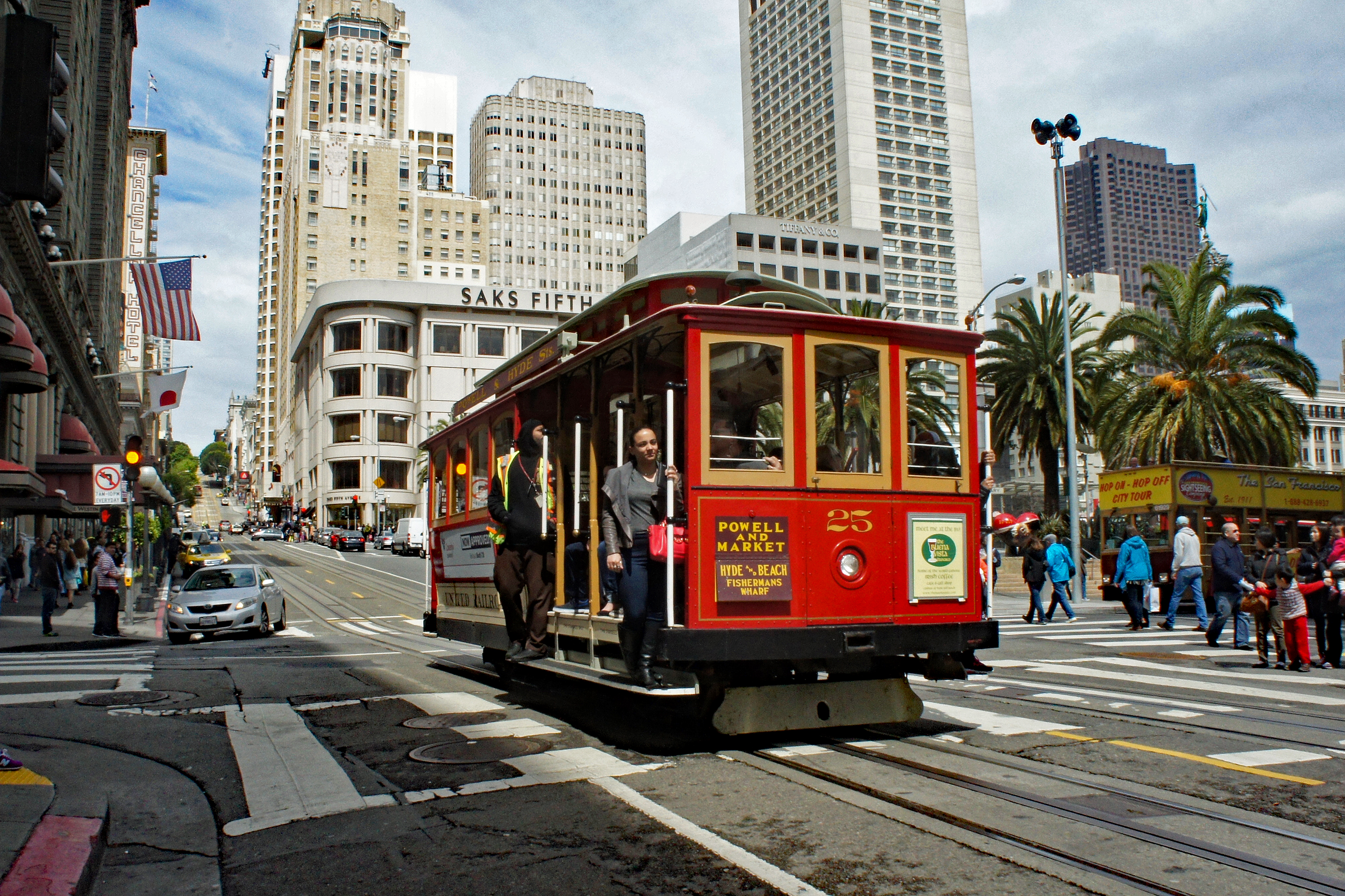 Cable car, San Francisco